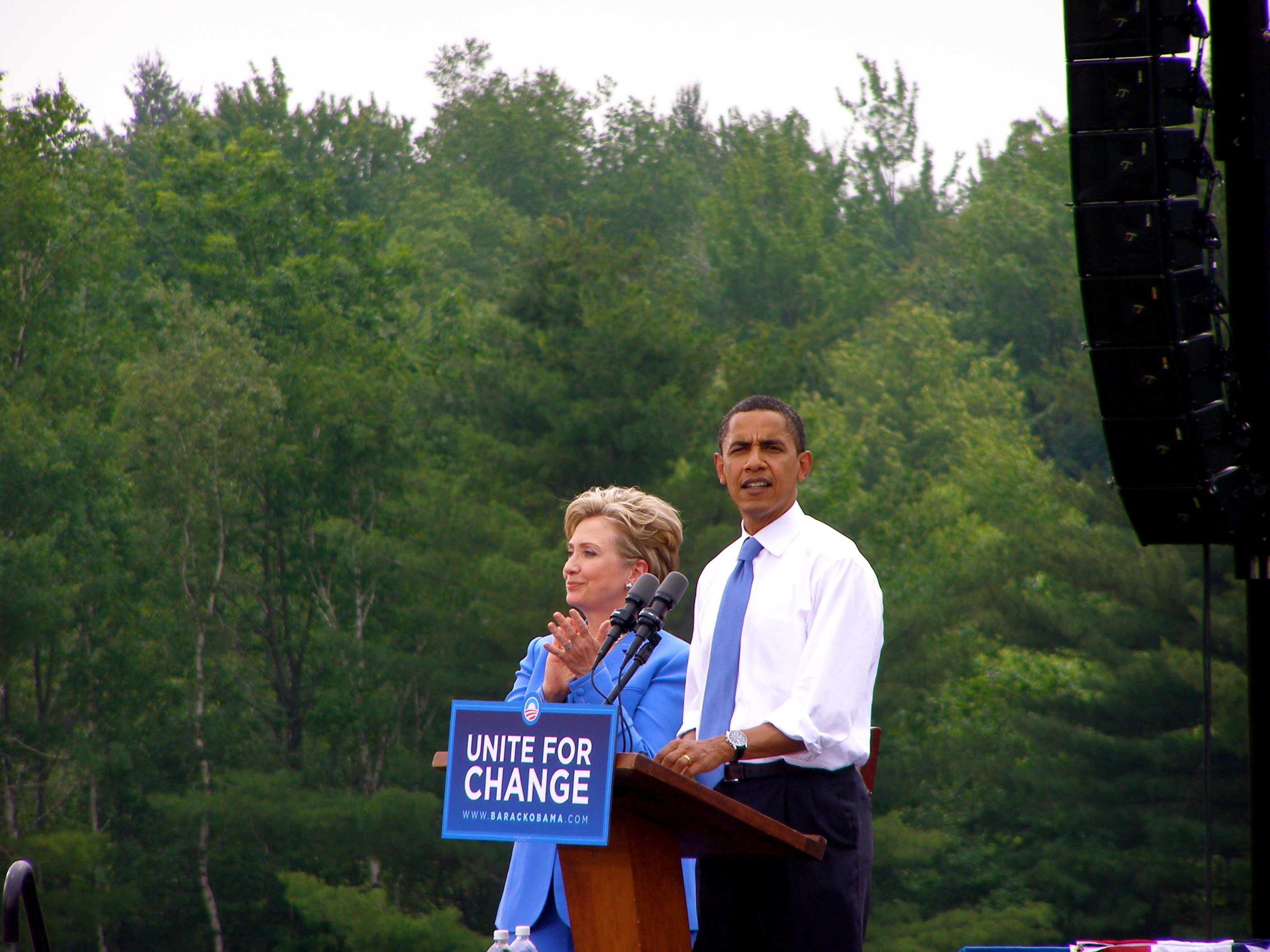 "Unite for Change" rally in Unity, New Hampshire on June 27, 2008. Marked the end of the 2008 Democratic primary with Hillary Clinton endorsing Barack Obama.